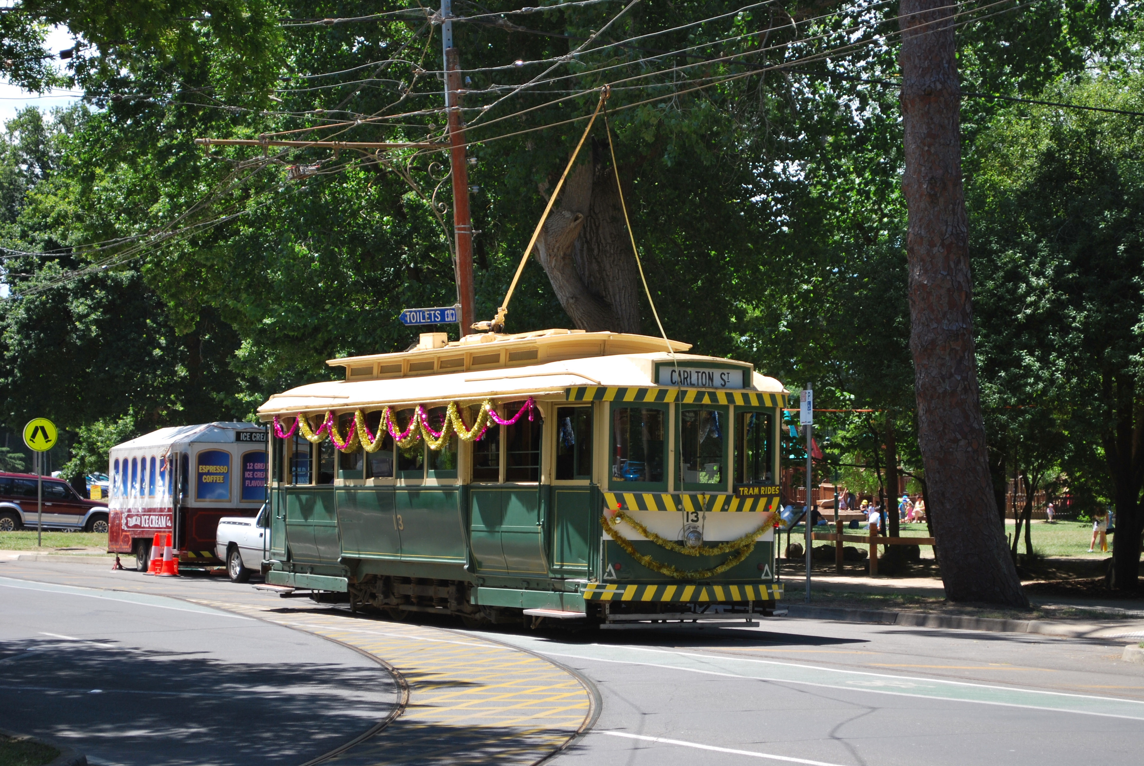 A tram in the park at Lake Wendouree at Ballarat, Australia